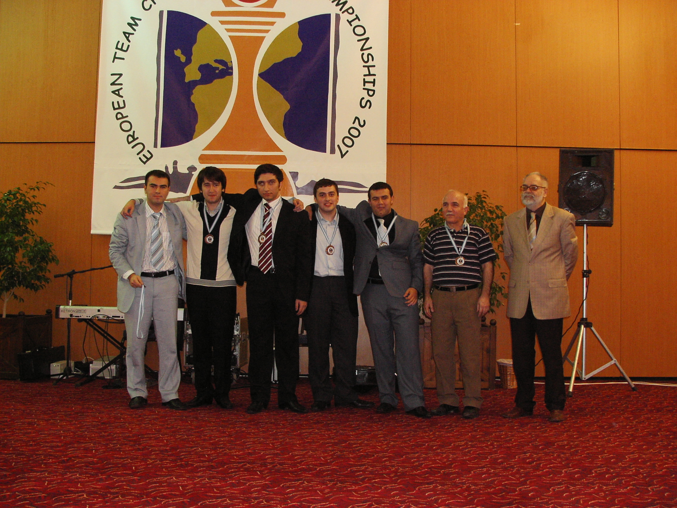 Azerbaijani Chess team at the EuroChess 2007. From left: Shakhriyar Mamedyarov, Teimour Radjabov, Vugar Gashimov, Qadir Huseynov, Rauf Mamedov, and their coach (?).